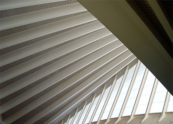 Windows of the Bilbao Airport, Spain.Aeropuerto de La Paloma, Bilbao (interior)